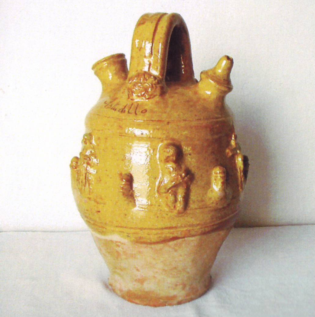 Botijo of passion, typical piece of traditional pottery of Astudillo (Palencia, Spain). Glazed Sweet in its upper, central, decorated in prefabricated moulds and overlapped part embossed with various models of figures religious, "the crucified", "the Virgin and child", "the Sacred Heart", "Angels", and various saints. Developed in the second half of the 20th century. Expositión by Pilar Belmonte Useros in the Museo de cerámica de Chinchilla de Montearagón.